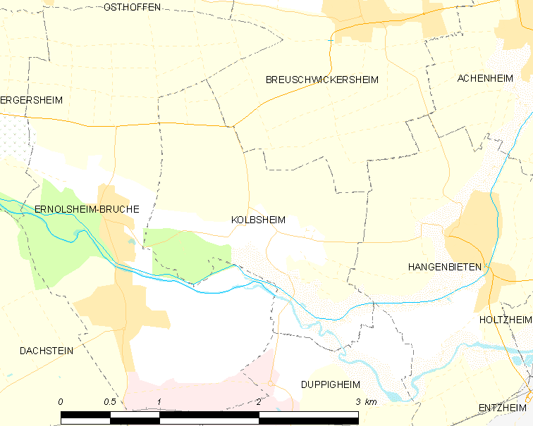 Map of French municipality